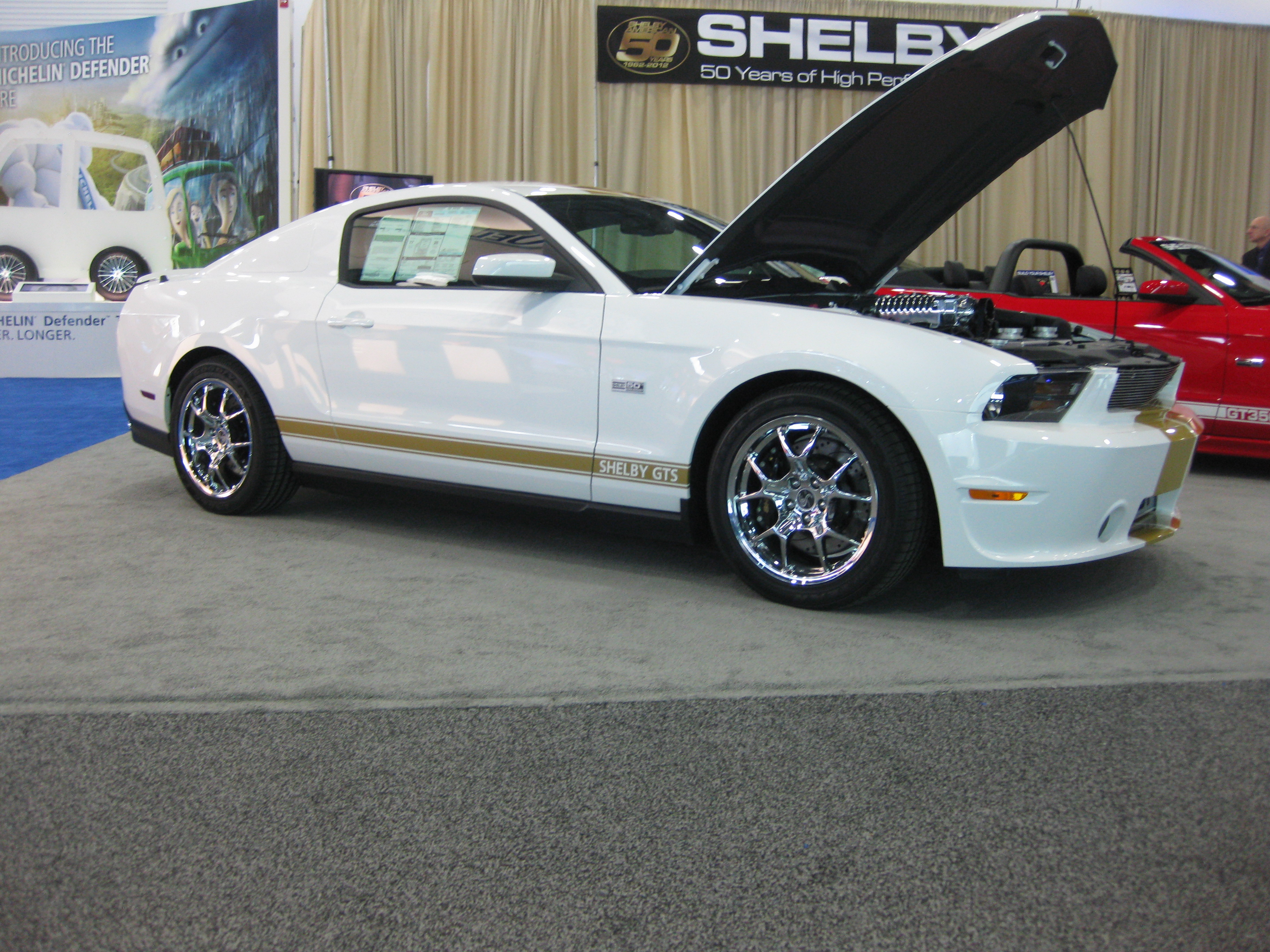 For more info and images please check